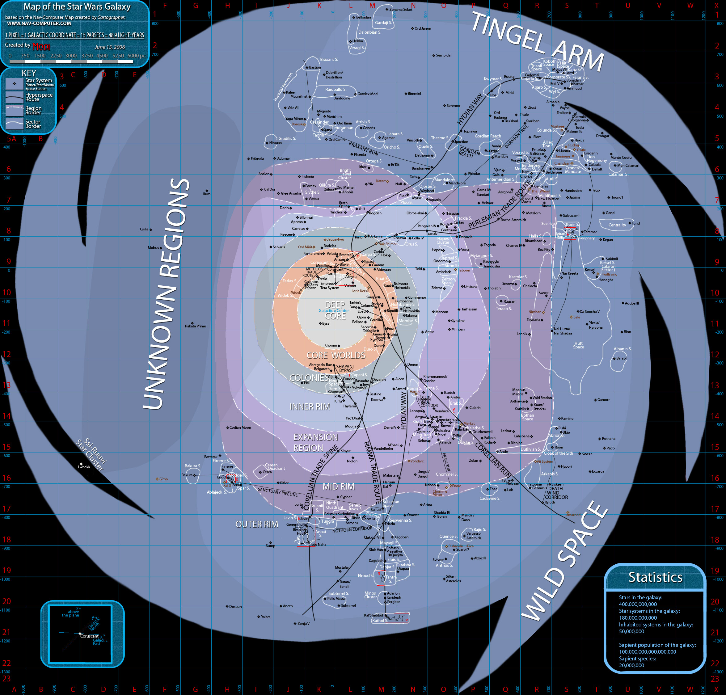 This is an unofficial map which represents the fictional galaxy of the Star Wars universe.